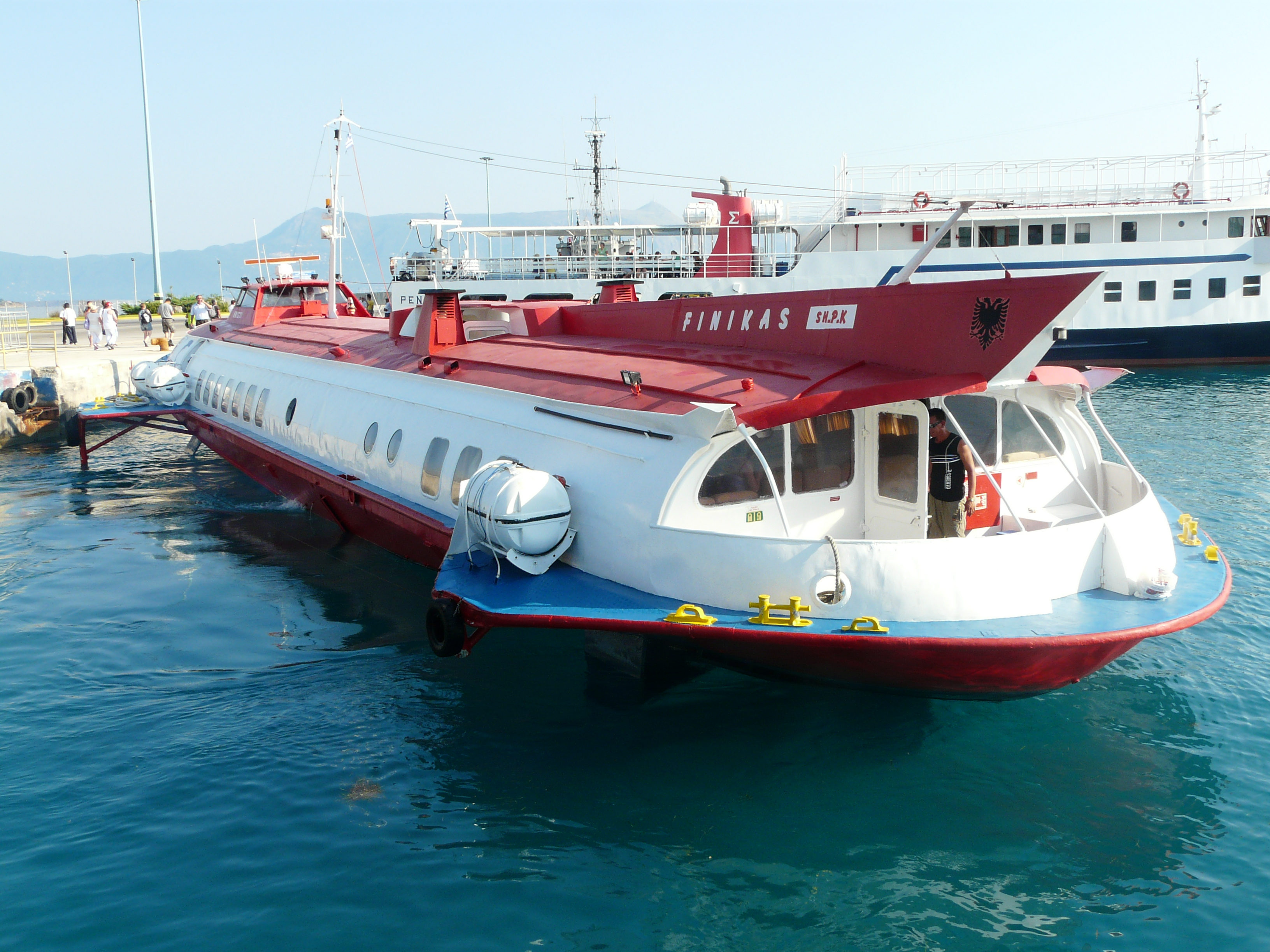 Corfu-Albania trip. Possibly Corfu town